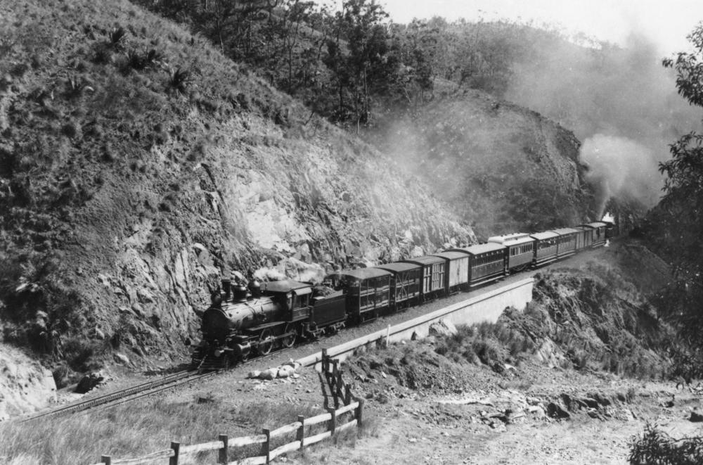 Rockhampton mail train ascending the Razorback near Mt. Morgan, 1910